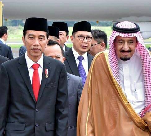 President Joko Widodo of Indonesia meeting with King Salman of Saudi Arabia, when Salman arrived at Halim Perdanakusuma Airport for a state visit to Indonesia [1] Cropped from File:Salman Jokowi 2017.jpg